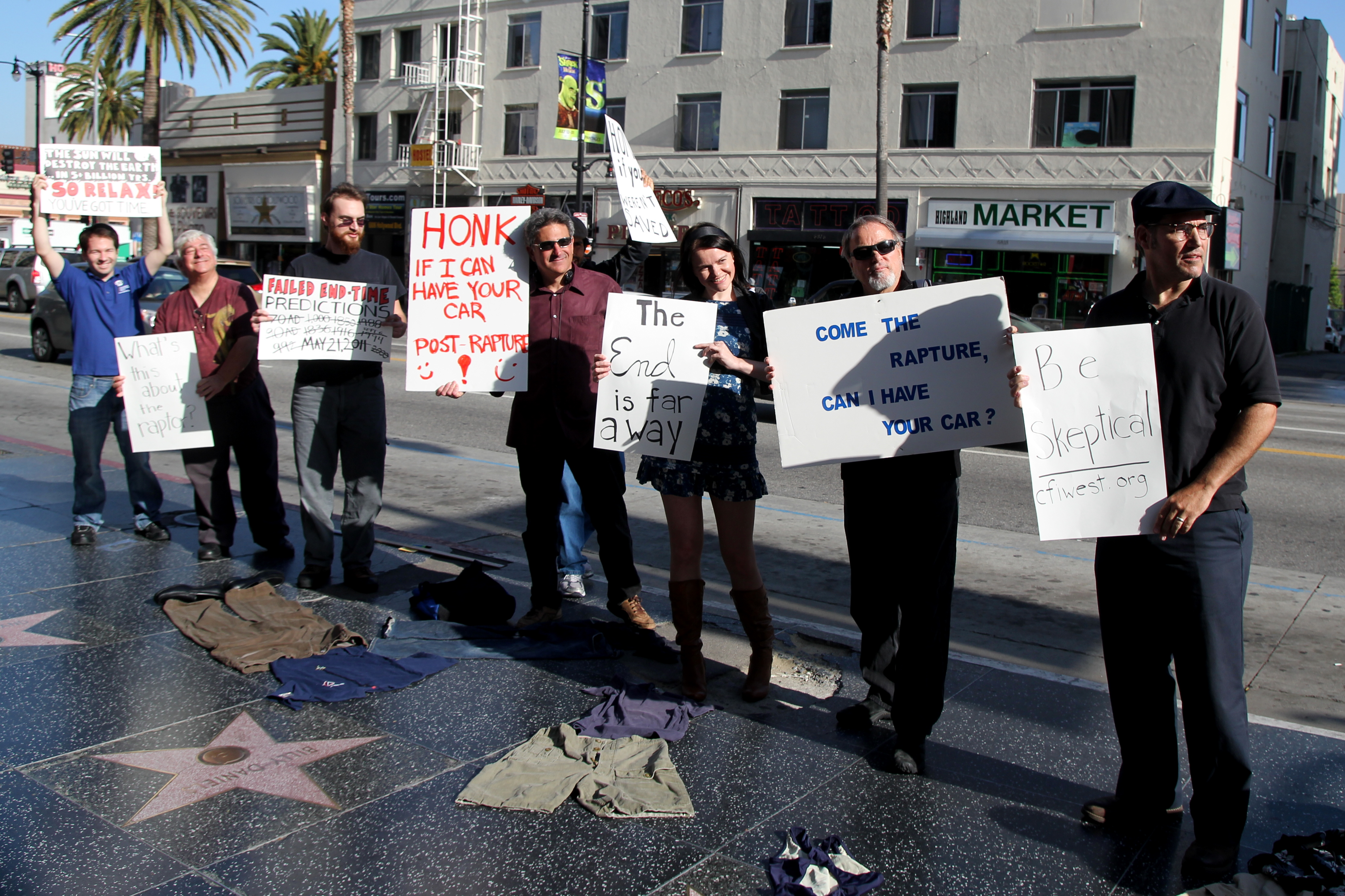 Skeptics descend on Hollywood Blvd May 21, 2011 for the end-of-the-world rapture prediction by Harold Camping.